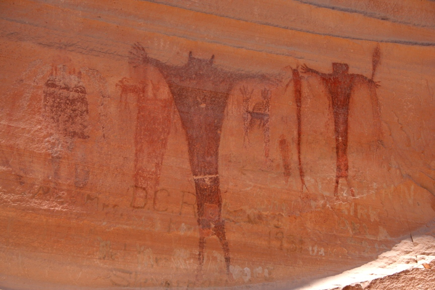 Detail of the Buckhorn Draw Pictograph Panel (Fremont culture). On a sandstone formation of the San Rafael Swell, in Emery County, central Utah.